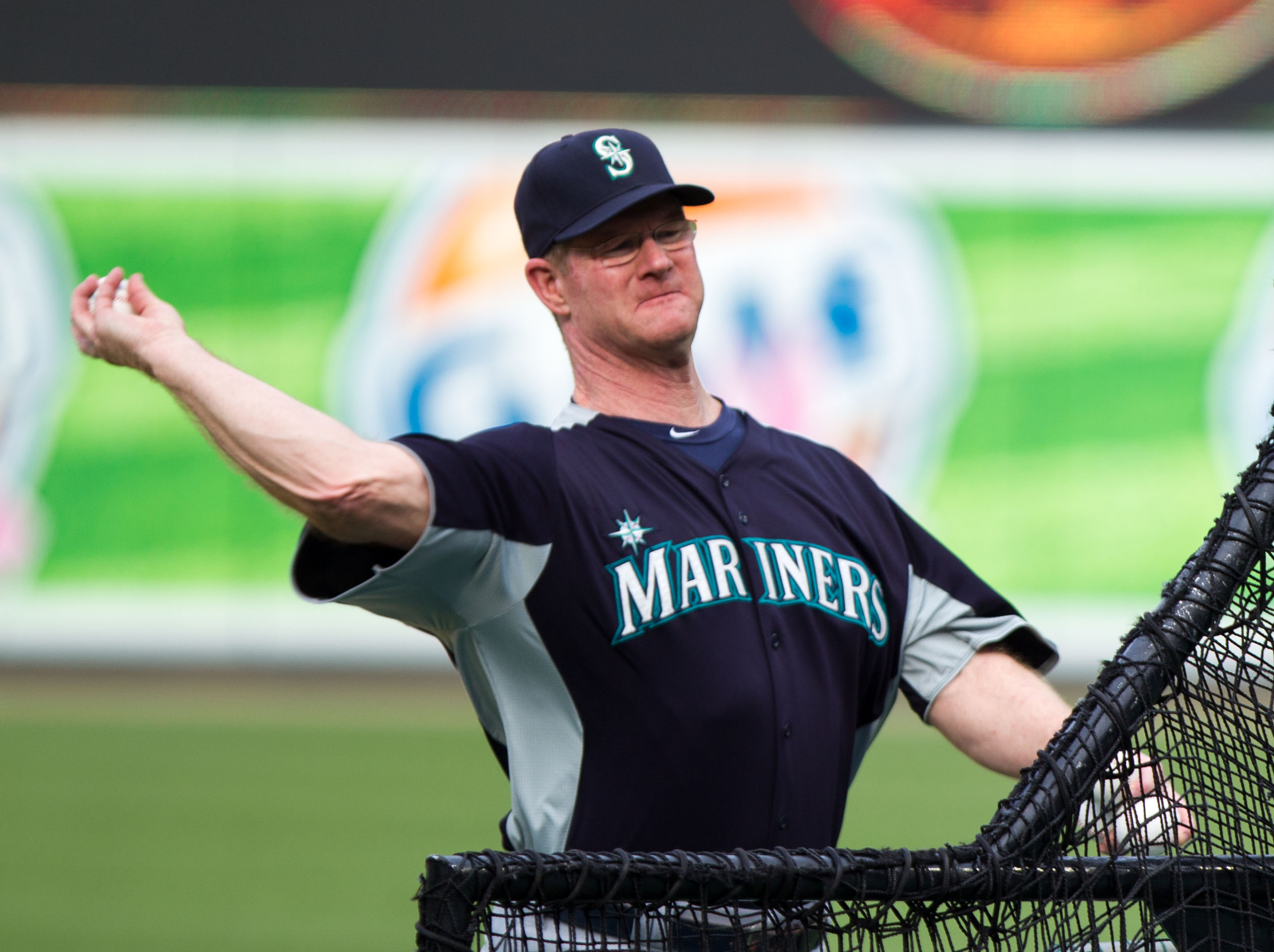 Mariners at Orioles August 6, 2012. Third base coach